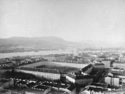 The Újépület ("New Building") around 1880, destroyed in 1897 and located on what is now Szabadság tér ("Liberty Square") in Budapest, Hungary.